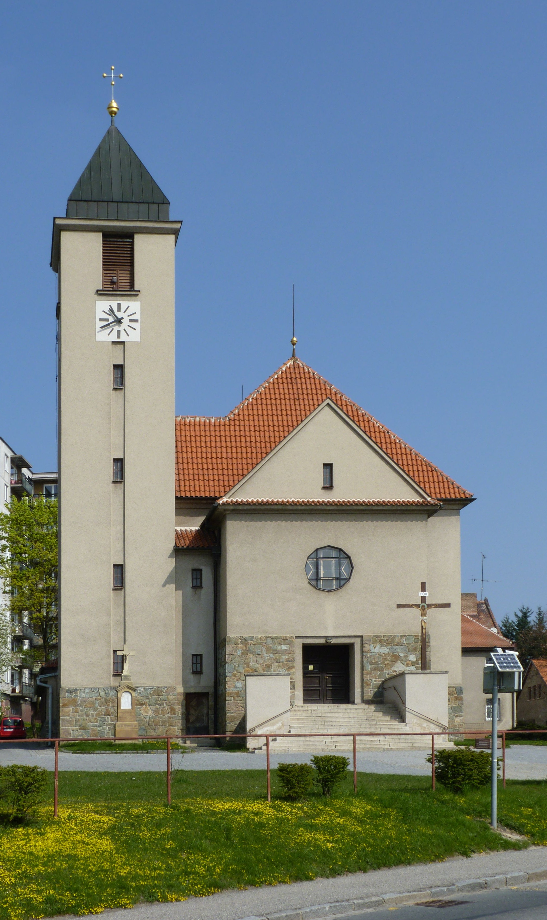 Church of Saint John of Nepomuk, Brno-Starý Lískovec, Czech Republic